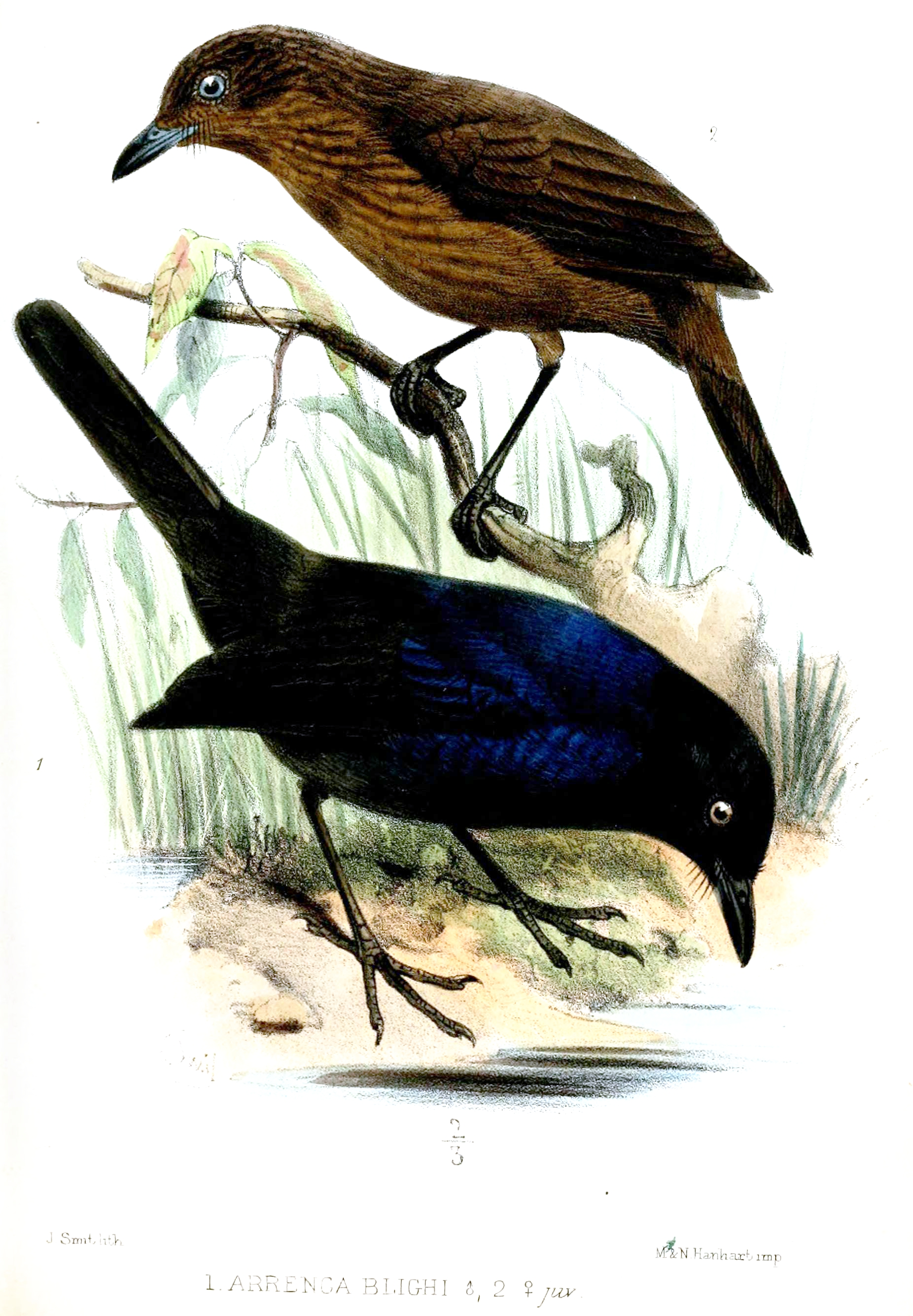 Sri Lanka Whistling-thrush, immature female (above) and adult male (below)